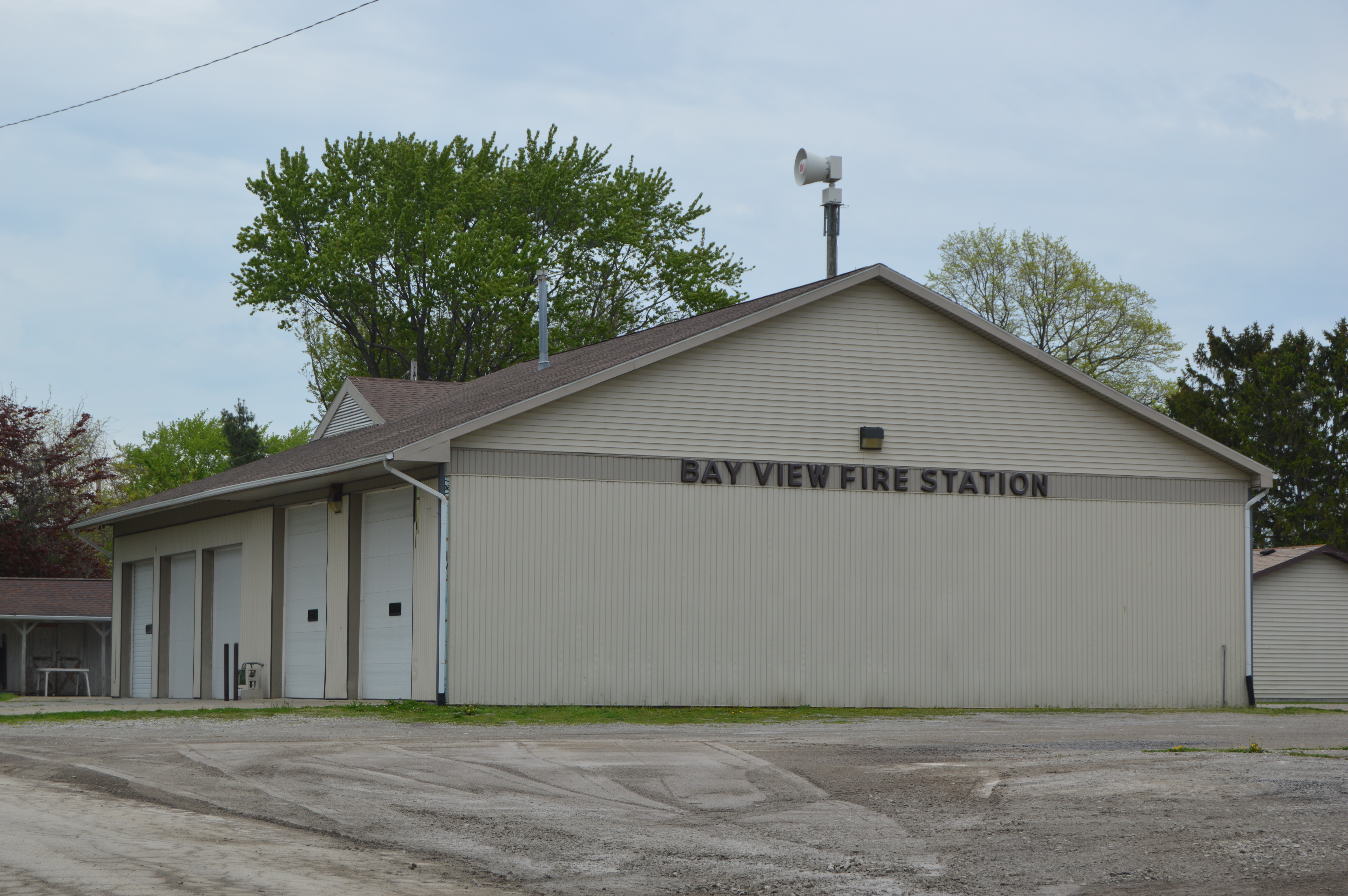 Front of the Bay View Fire Department, located at 2312 Comanche Trail in Bay View, Ohio, United States. It was built in 1989.